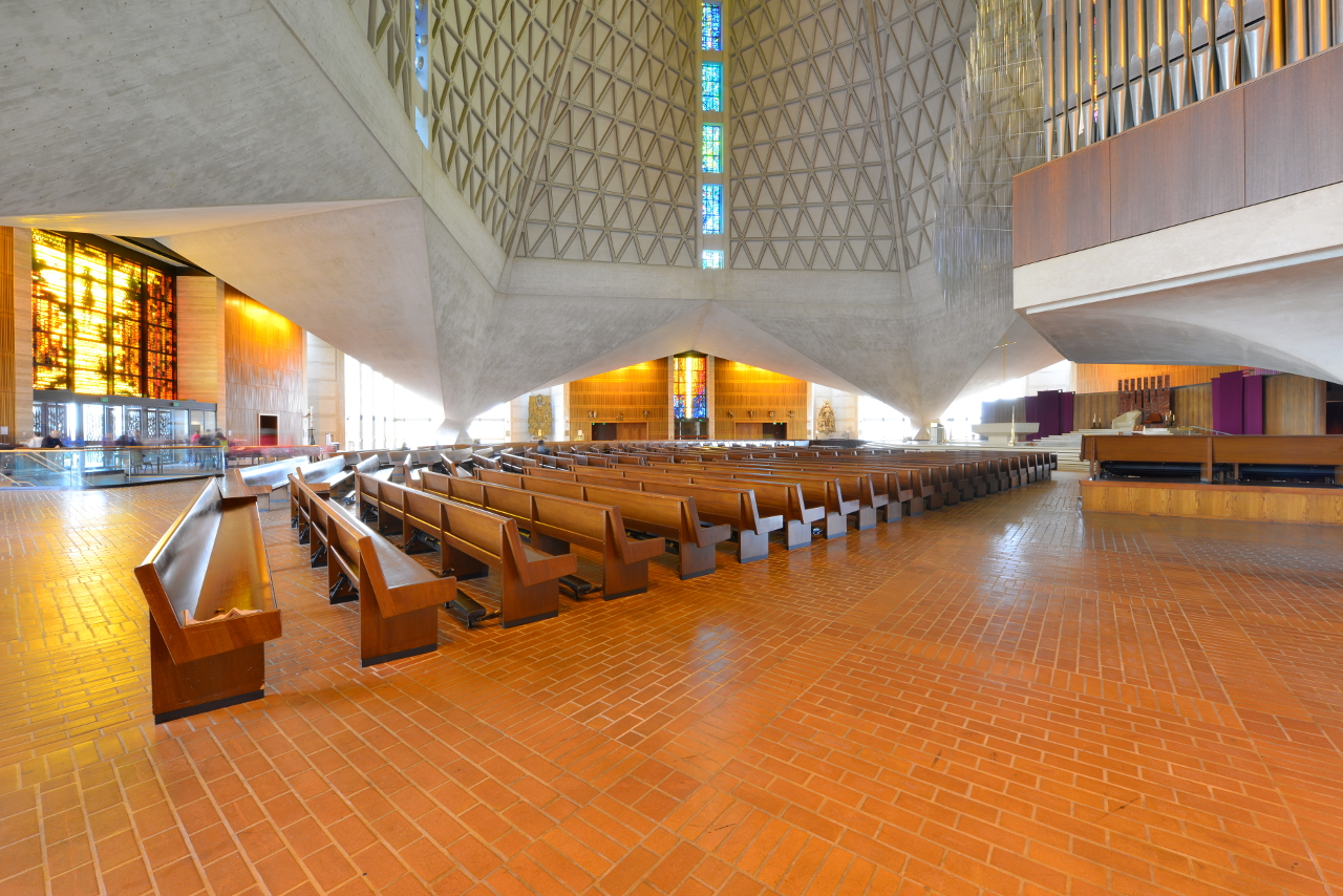 Cathedral of Saint Mary of the Assumption